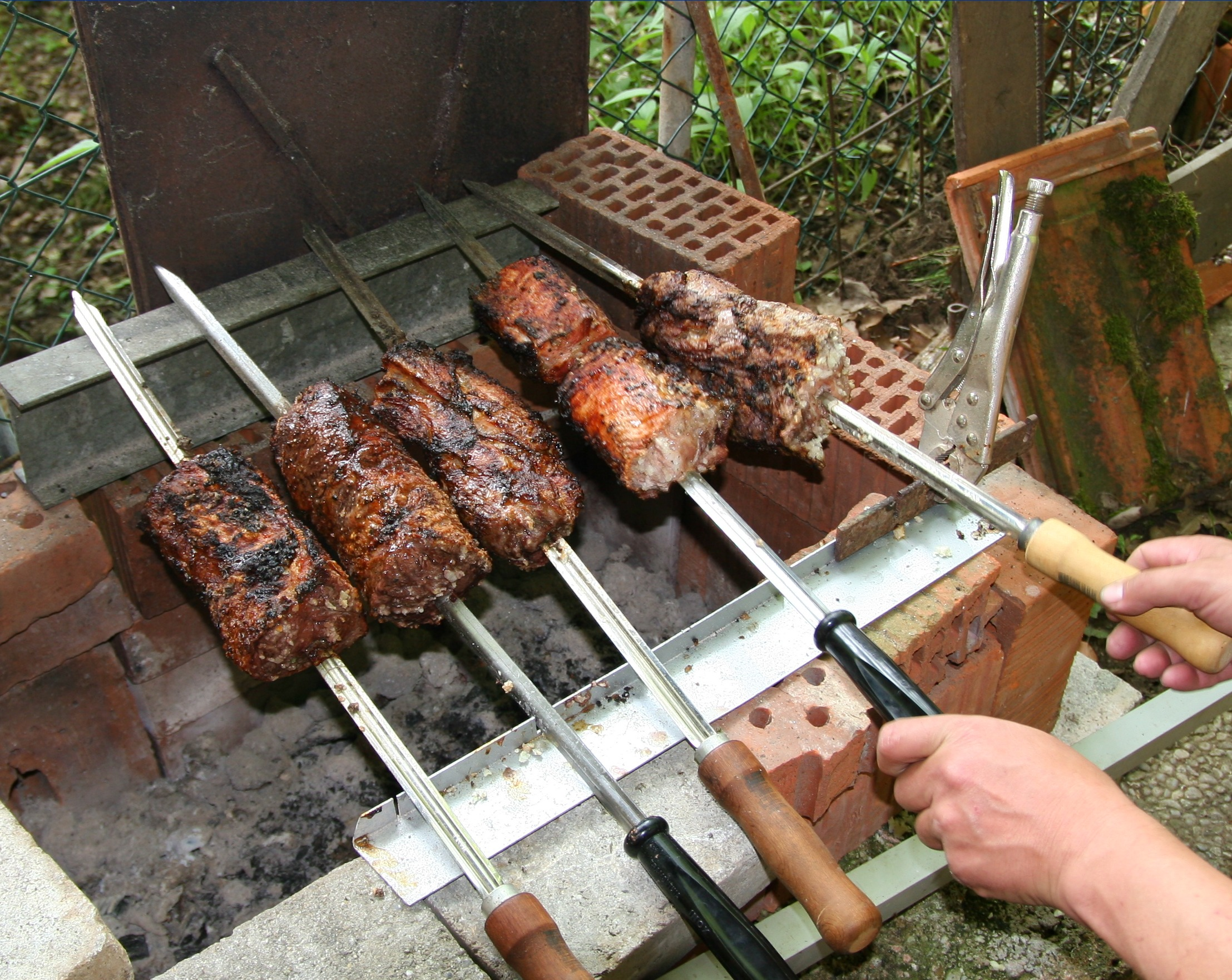 Brazilian Churrasco (made in Germany)